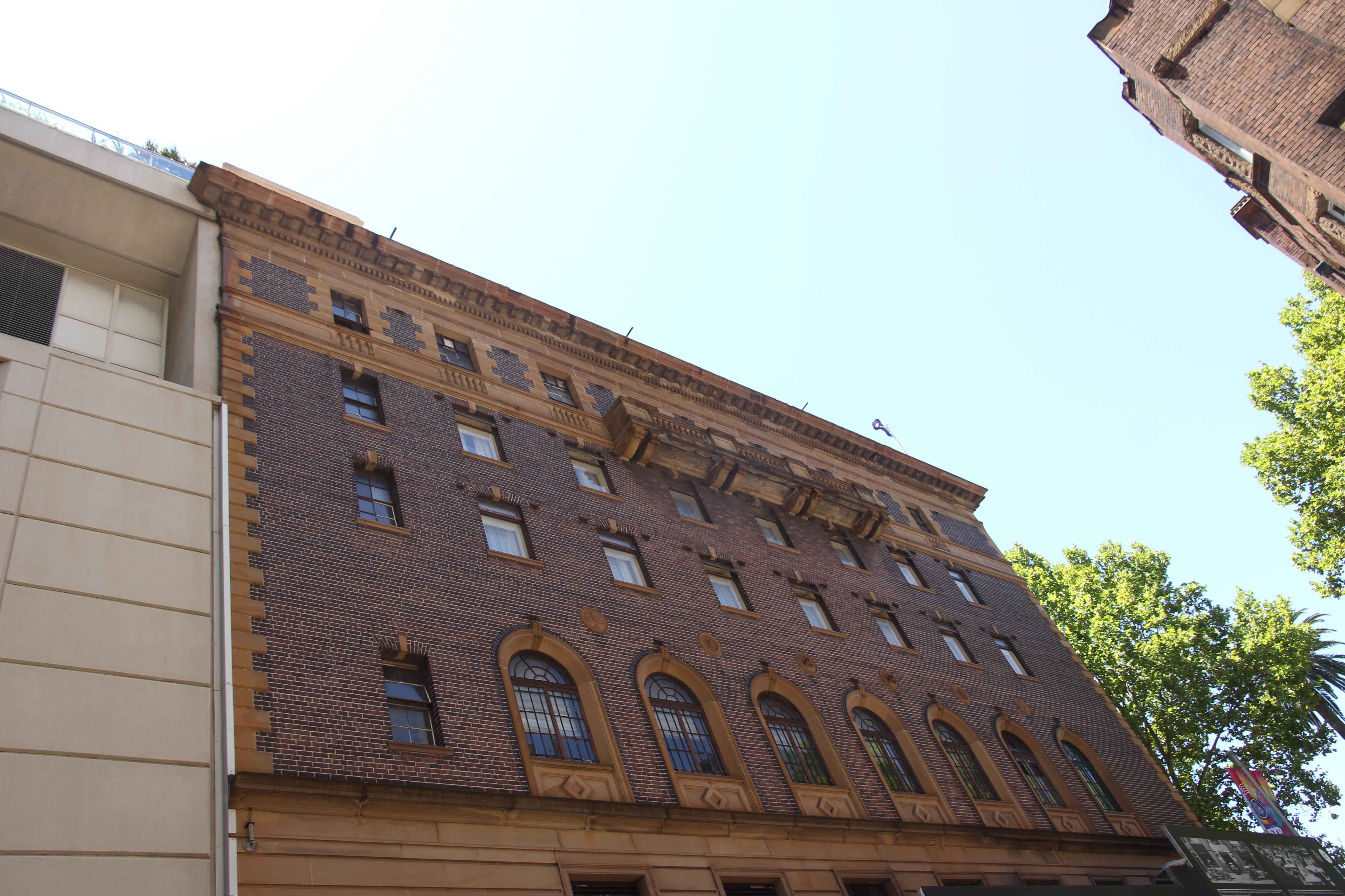 Albert Street upper facade of the Royal Automobile Club of Australia building, located in Macquarie Street in the Sydney central business district in the City of Sydney, New South Wales, Australia